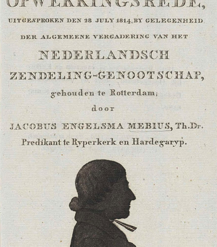 Portrait (profile) of Jacobus Engelsma Mebius (vicar, 1749-1838). Source: "Opwekkingsrede, uitgesproken den 28 july 1814, by gelegenheid der algemeene vergadering van het Nederlandsch Zendeling-Genootschap, gehouden te Rotterdam" (1814). Artist: Leonardus Schweickhardt (1783-1862).